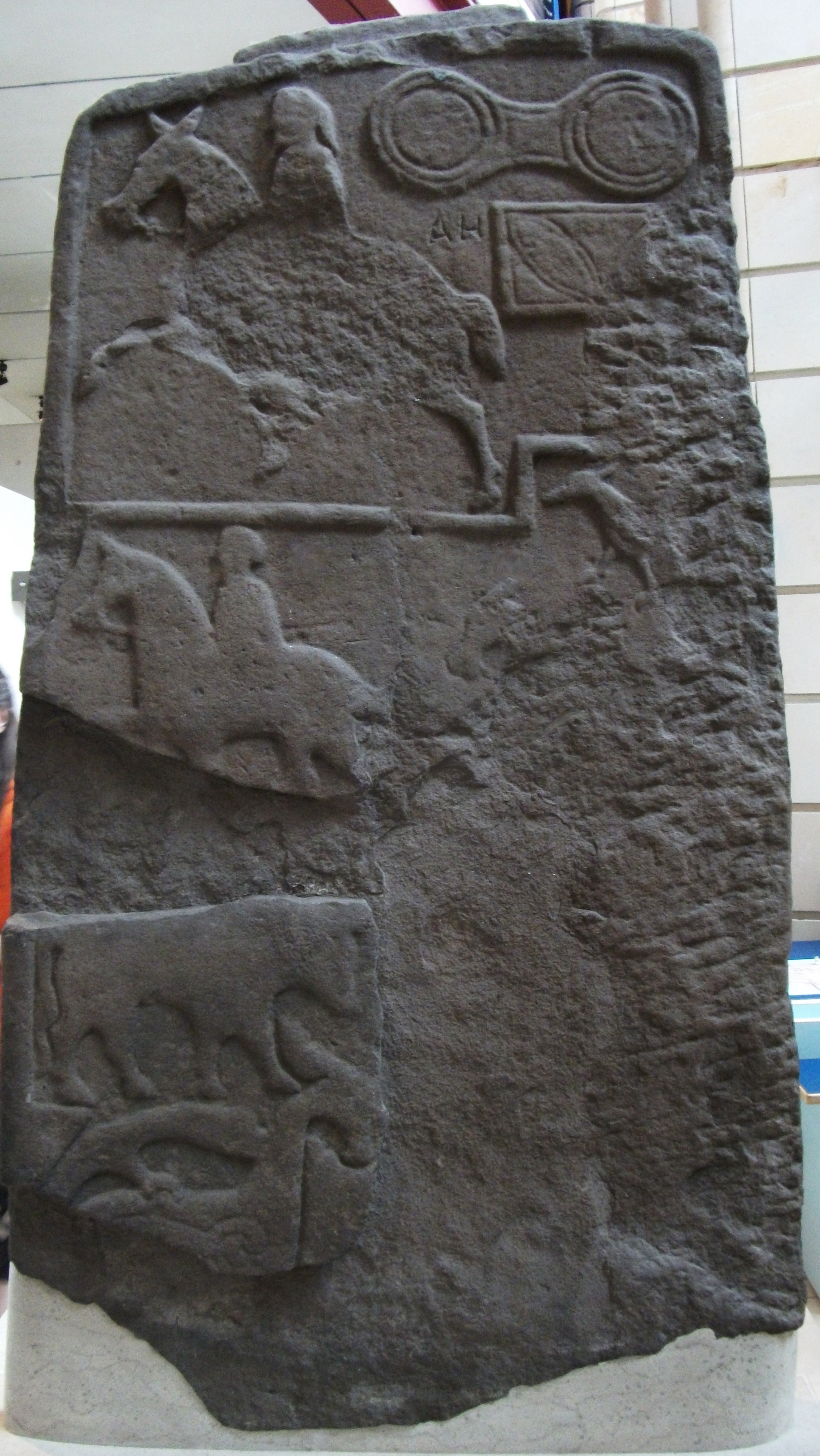 Pictish Stones in the Museum of Scotland